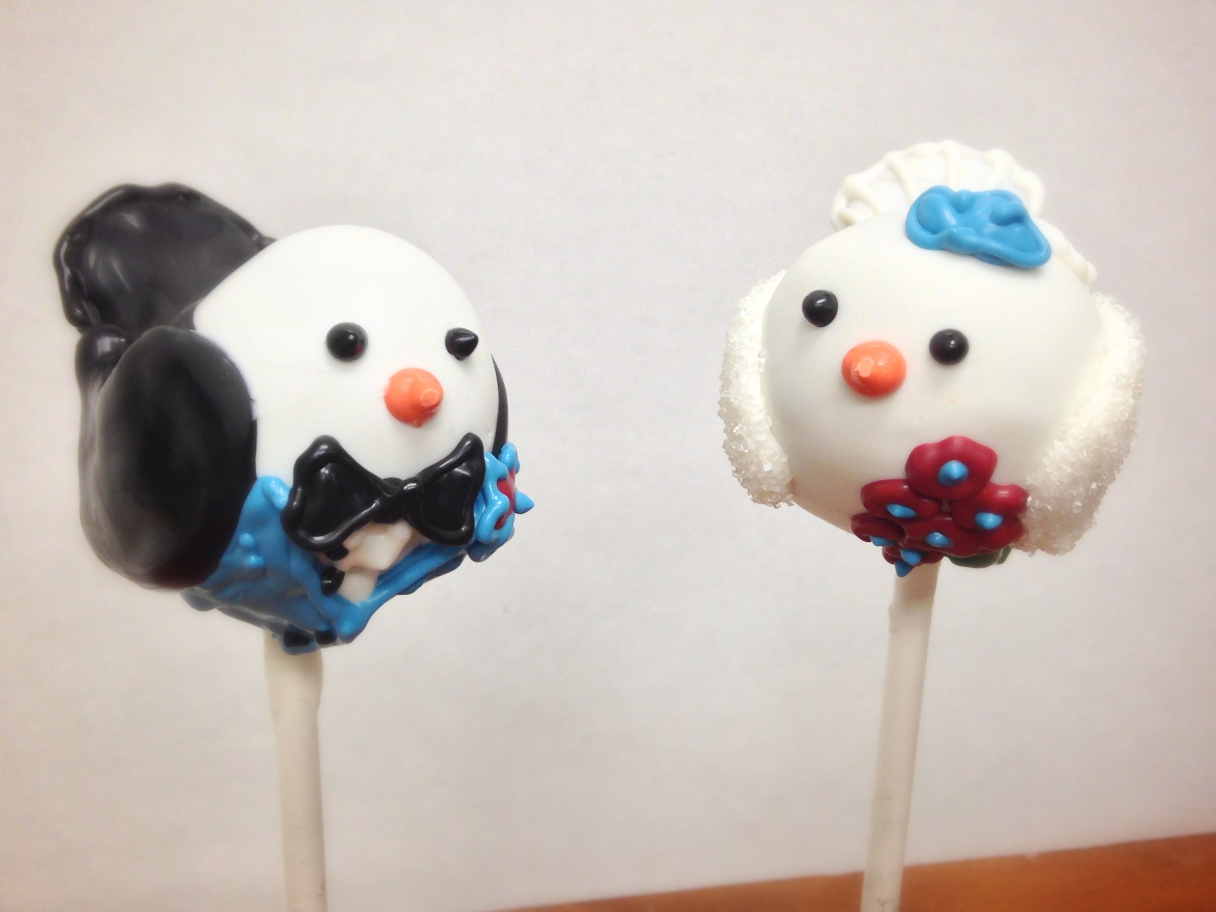 Little bride and groom cake pops, from Sweet Lauren Cakes!